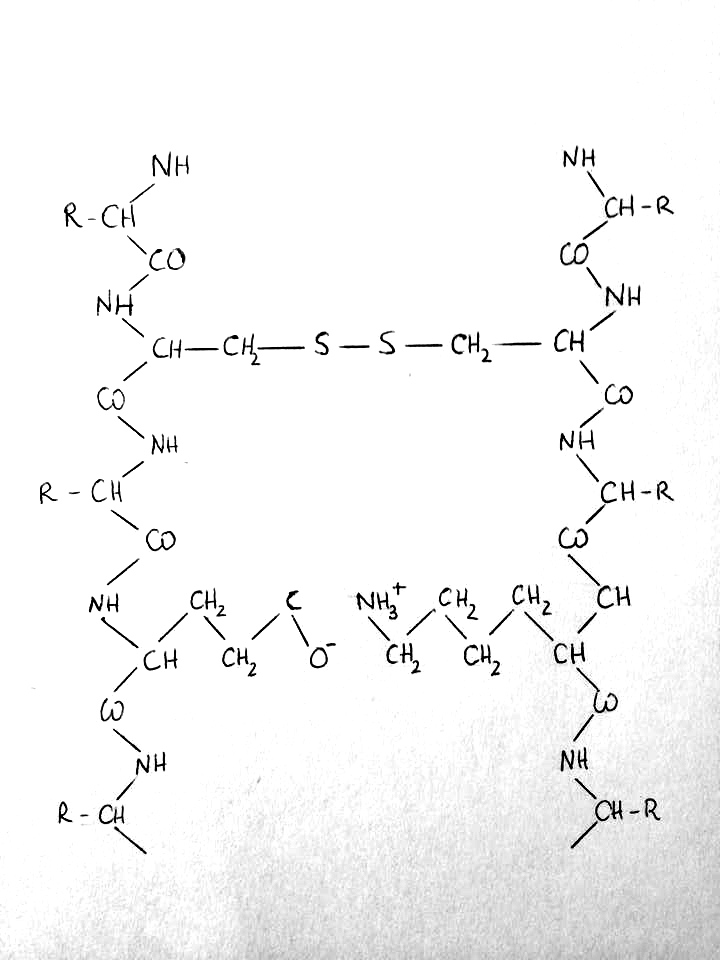 Estructura primària